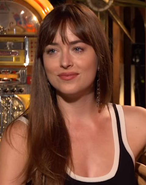 Cropping of Johnson photo